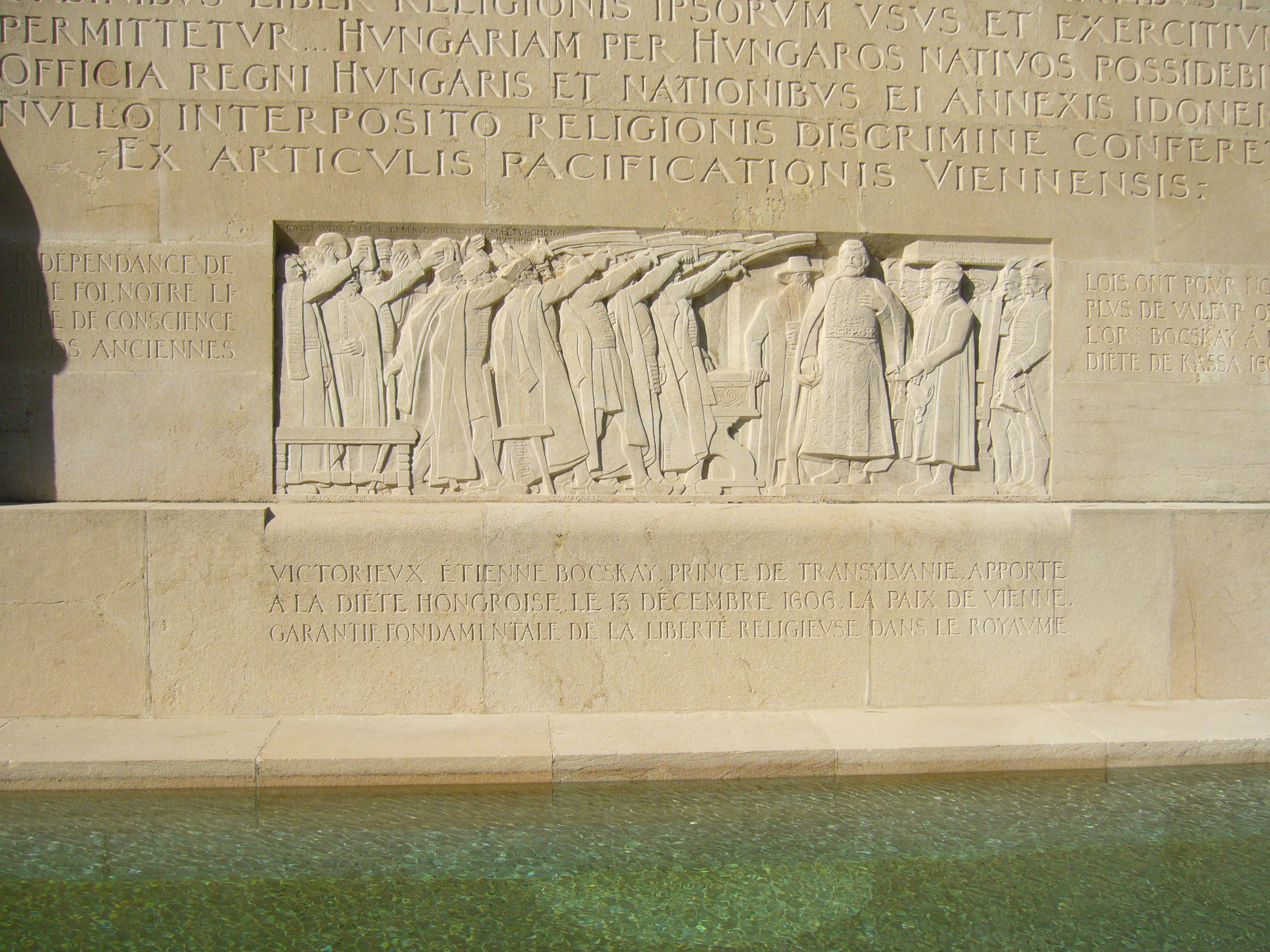 Caption of Bocskay relief